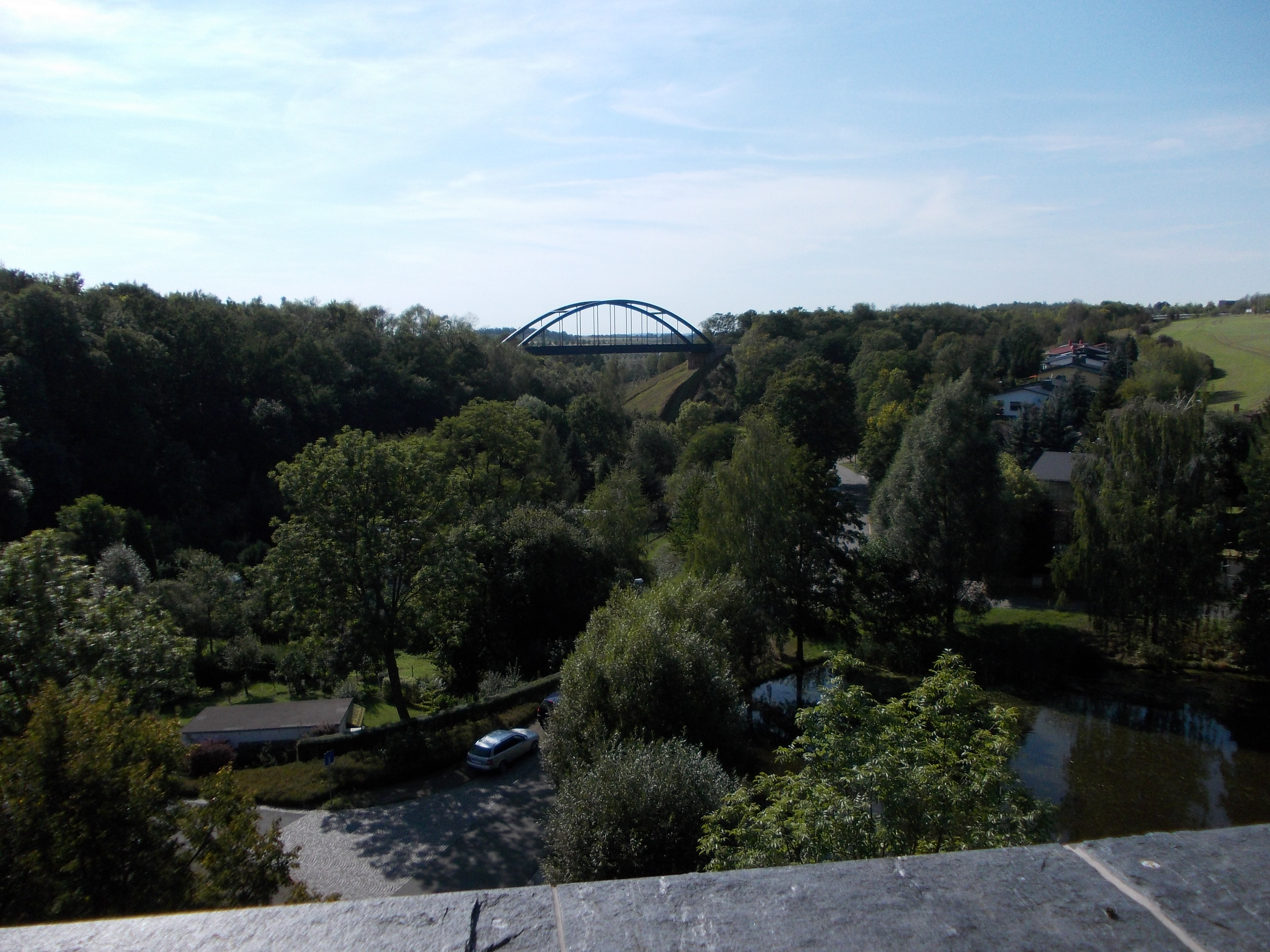 View of the Gessental valley from Ronneburg Castle (Greiz district, Thuringia) with bridge of the Gössnitz-Gera railway line